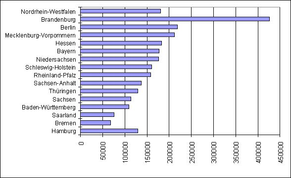 Number of women per Breast Cancer Center in Germany. Year: 2008 Data: Onkozert and Statistisches Bundesamt